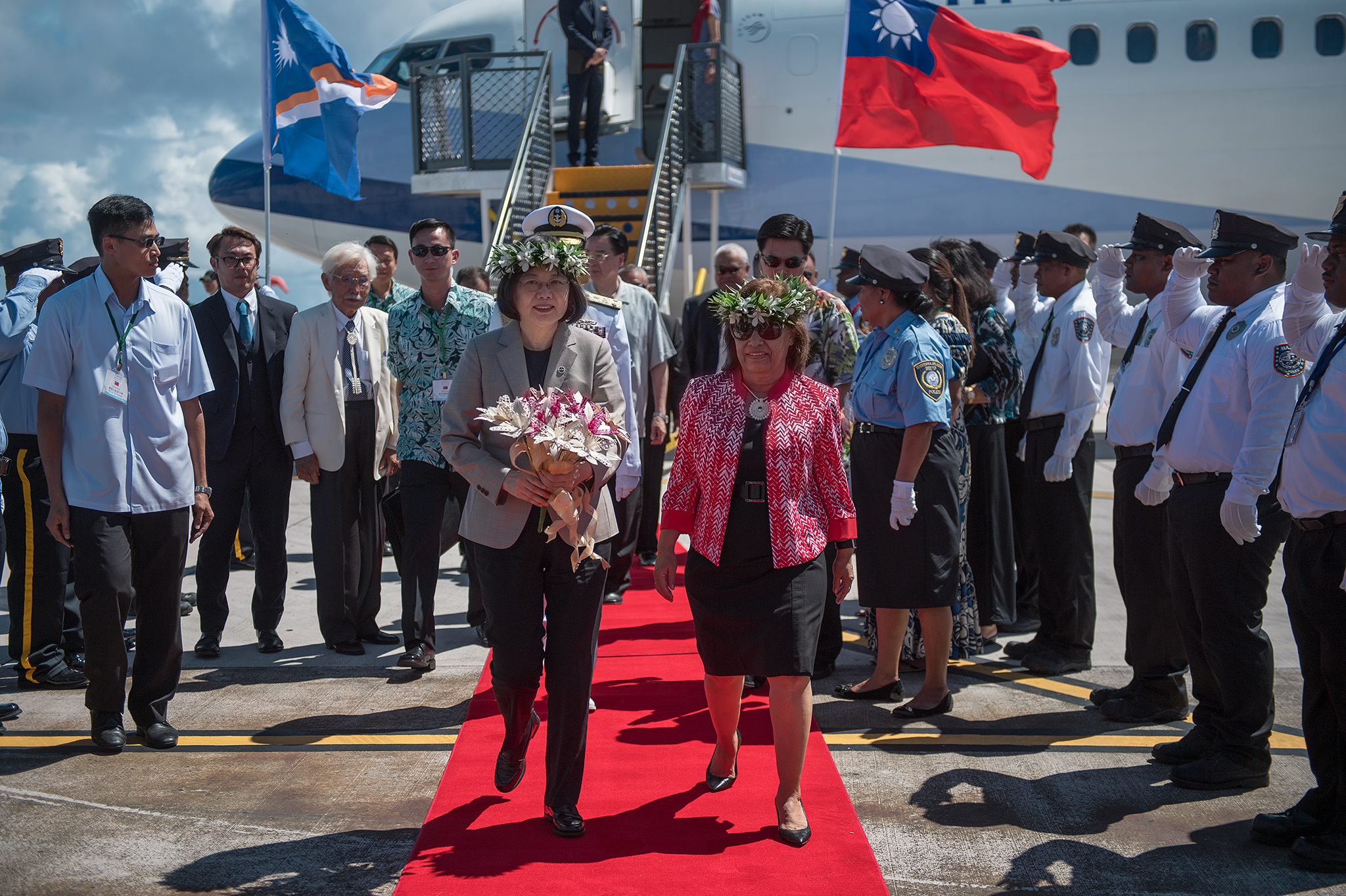 President Tsai and Marshall Islands President Heine. (2017/10/30) 授權方式及範圍：中華民國總統府│政府網站資料開放宣告 Authorization Method & Scope: Office of the President, Republic of China (Taiwan) | Government Website Open Information Announcement